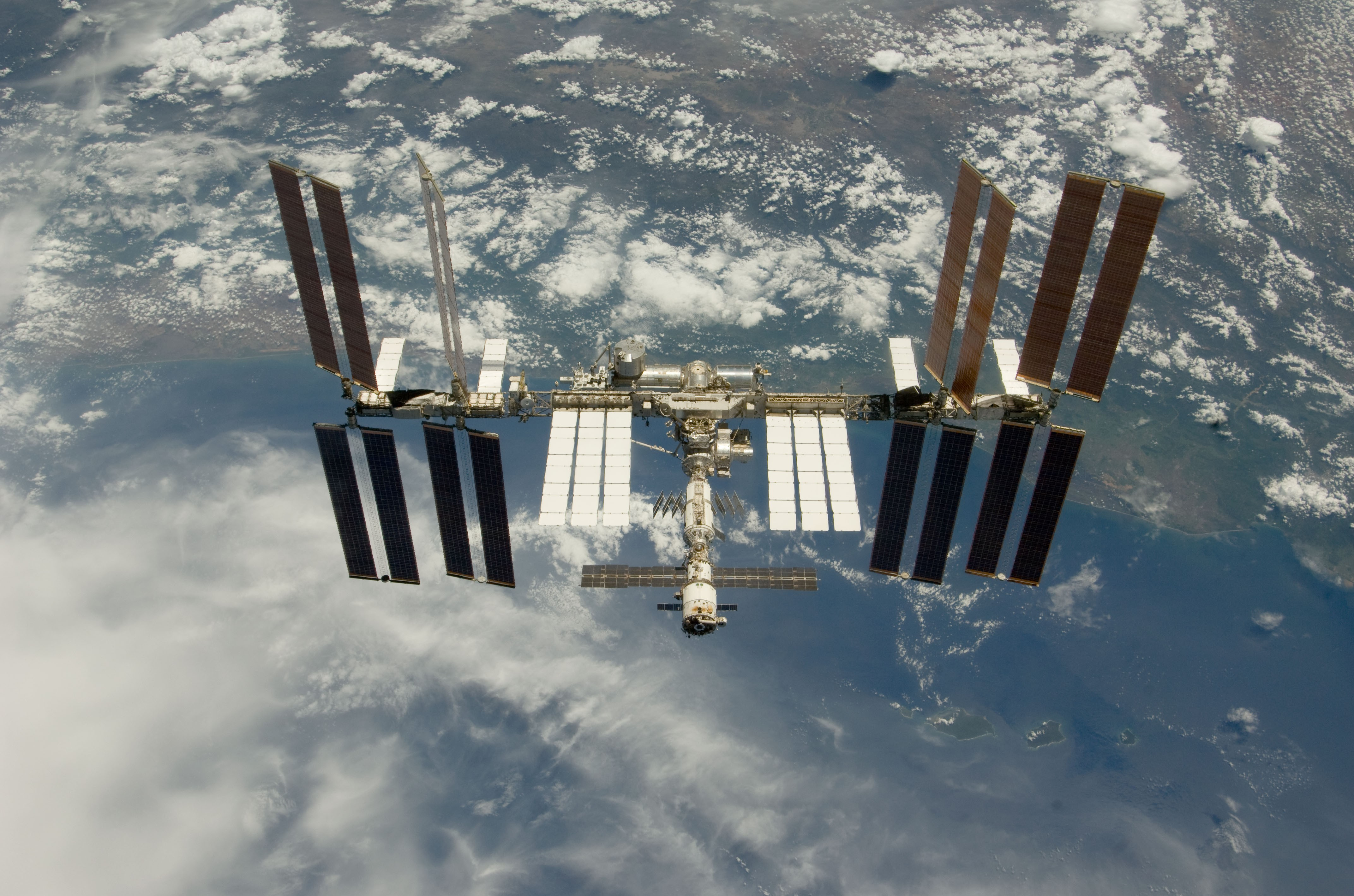 Backdropped by a blue and white Earth, the International Space Station is seen from Space Shuttle Endeavour as the two spacecraft begin their relative separation. Earlier the STS-127 and Expedition 20 crews concluded 11 days of cooperative work onboard the shuttle and station. Undocking of the two spacecraft occurred at 12:26 p.m. (CDT) on July 28, 2009.